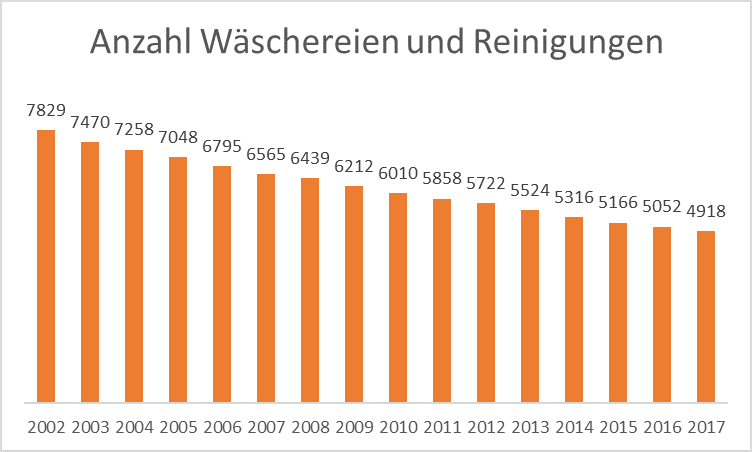 Number of laundries and dry cleaners in Germany (2002-2017)